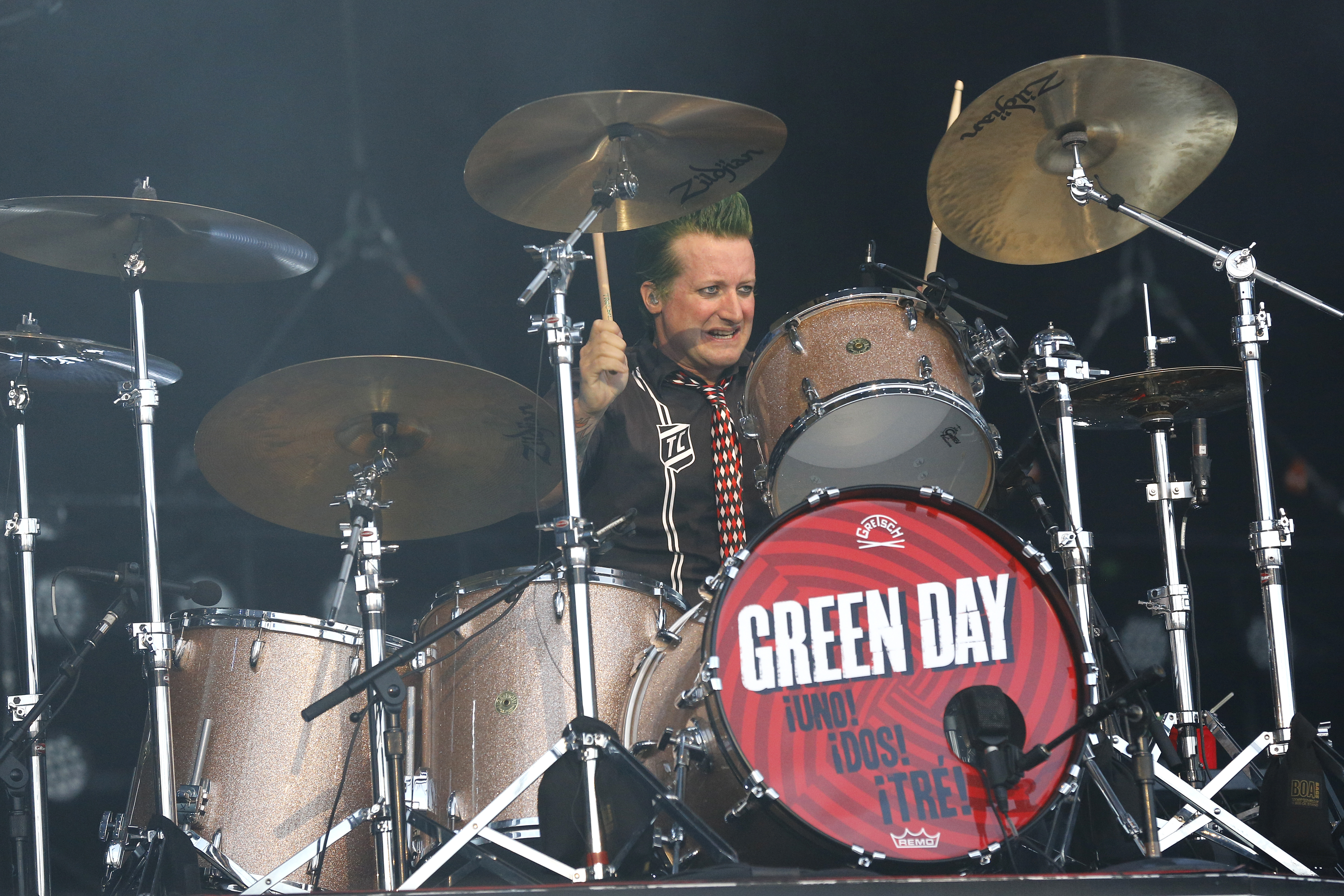 Tré Cool, drummer of Green Day, stands on the Center Stage of Rock im Park-Festival 2013.